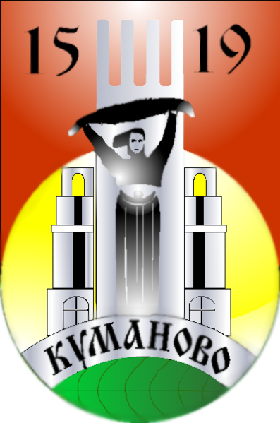 Coat of arms of Kumanovo